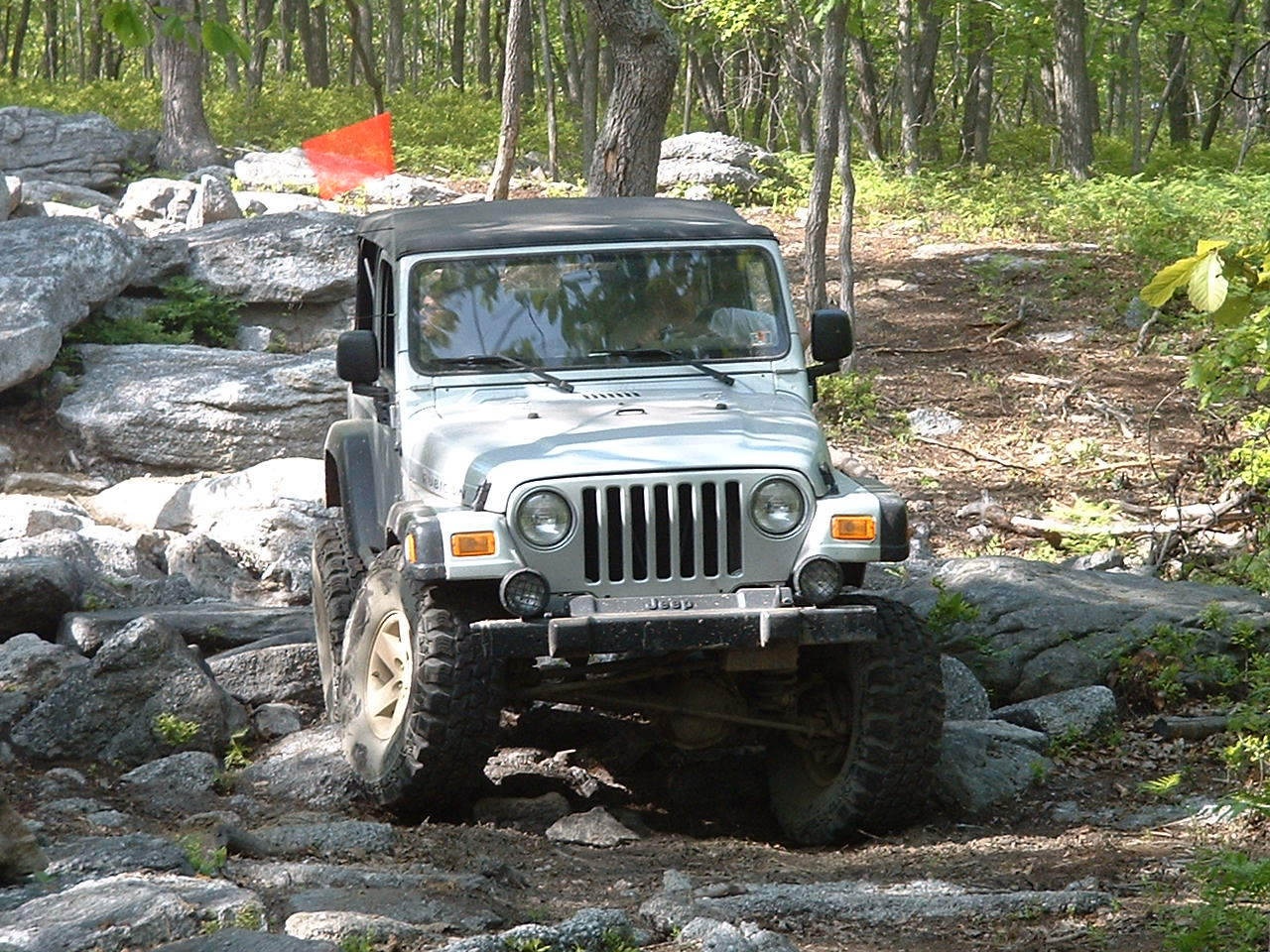 Jeep Rubicon TJ Rock Crawling at Paragon Off Road Park in Hazelton, PA.